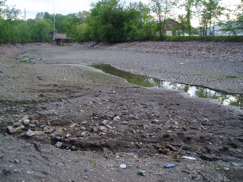 The bed of the Fox River in Appleton, Wisconsin, USA is exposed by temporary dams erected to allow for bridge repairs. It's amazing to gaze at what lies at the bottom of a hard-working river such as this...